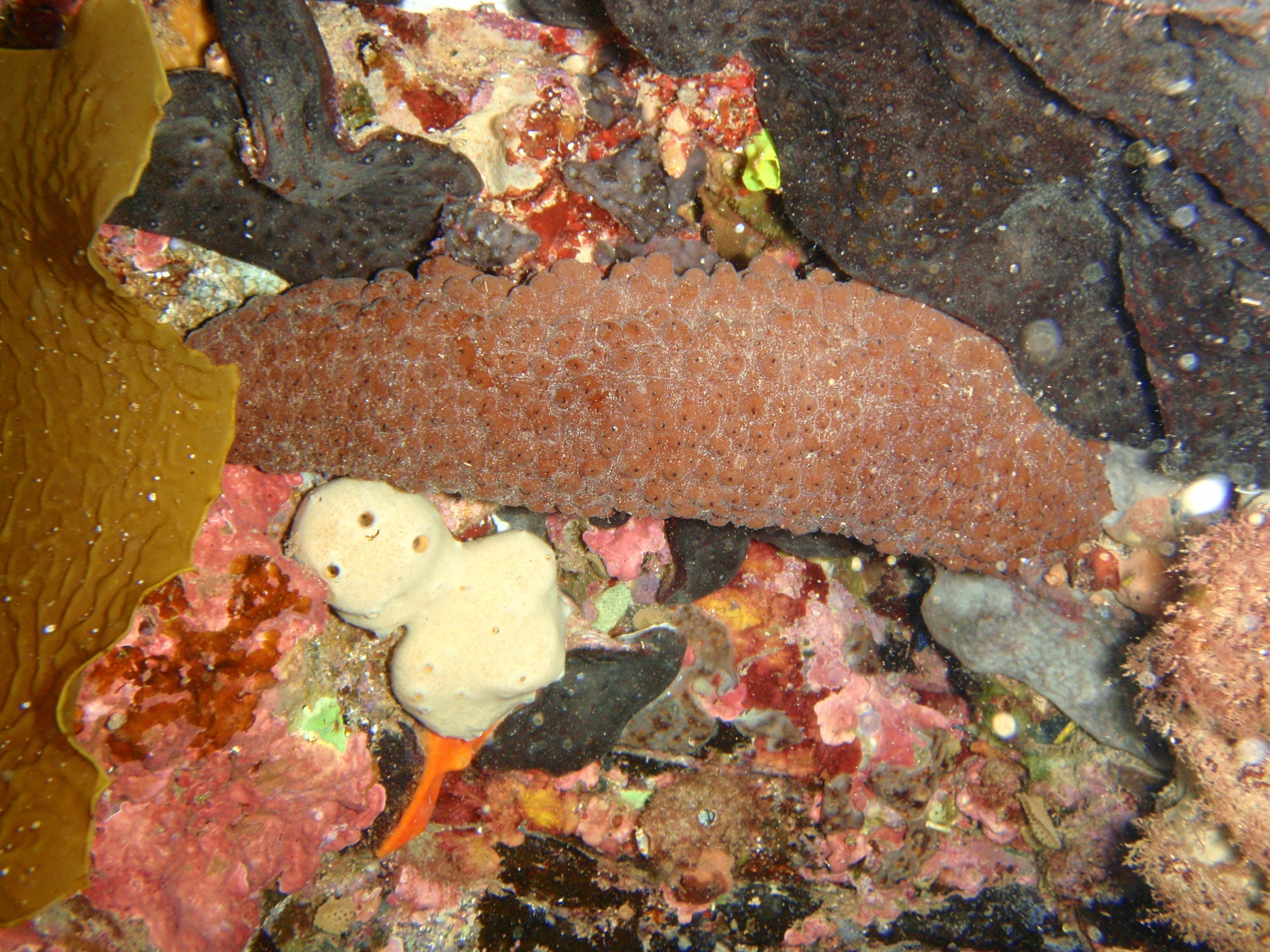 Southern sea cucumber Australostichopus mollis at the point at Second Valley, South Australia